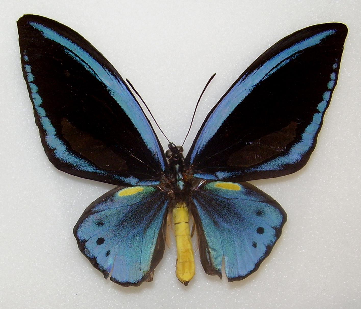 Ornithoptera priamus miokensis ; Duke of York Island